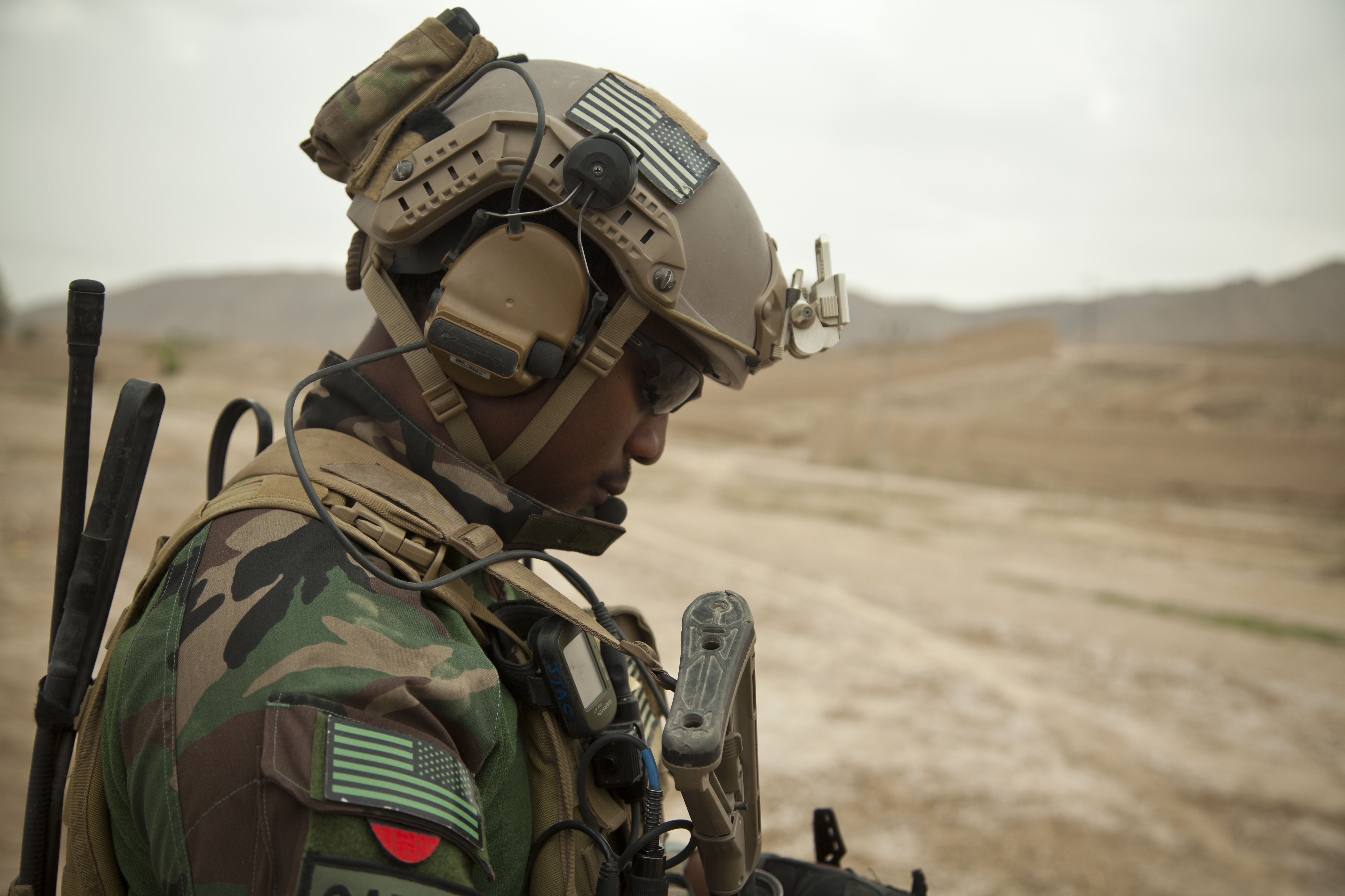 An U.S. Marine special operations team member maintains security during a patrol with Afghan National Army special forces to escort a district governor to a school in Helmand province, Afghanistan, April 15, 2013. Afghan National Security Forces have been taking the lead in security operations to bring security and stability to the people of the Islamic Republic of Afghanistan. (U.S. Marine Corps Photo by Sgt. Pete Thibodeau/Released)